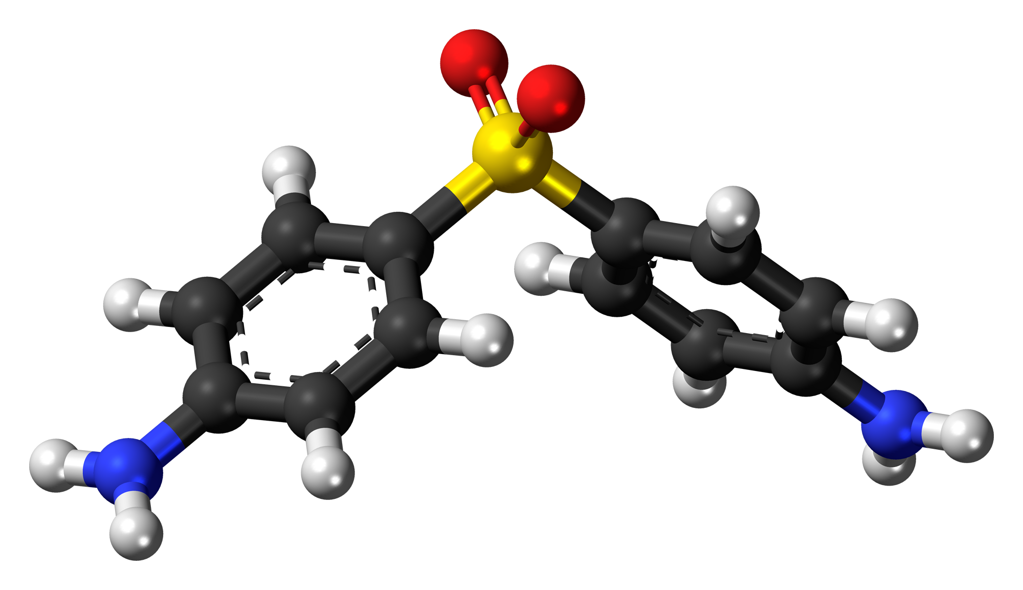 Ball-and-stick model of the dapsone molecule, an antibiotic. Colour code: Carbon, C: black Hydrogen, H: white Oxygen, O: red Nitrogen, N: blue Sulfur, S: yellow